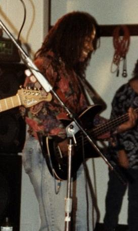 Tony Butler of Big Country. Dunfermline Pavillion August 31 1991 (I think)